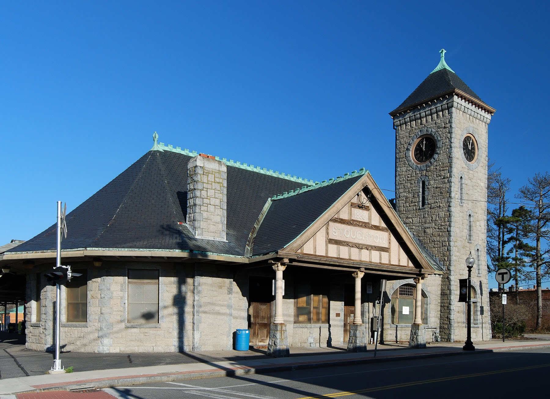 Stoughton Railroad Station (1888), Stoughton, Massachusetts